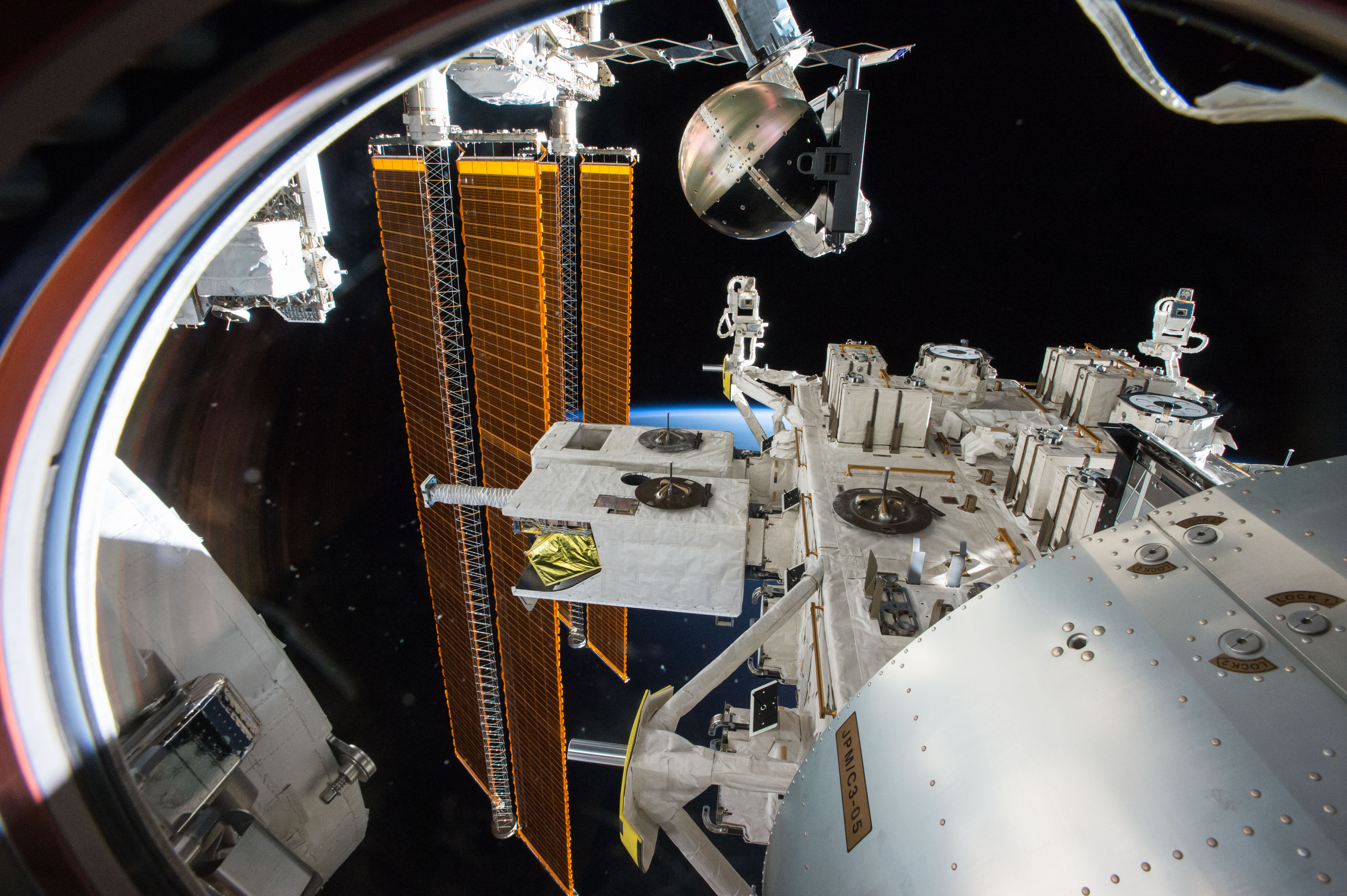 Equipment and data from the SpinSat investigation returns to Earth today, May 21, 2015, with splashdown of SpaceX's Dragon cargo spacecraft following its release from the International Space Station’s robotic arm at 7:04 a.m. EDT. This Nov. 28, 2014 photograph by NASA astronaut Terry Virts captures the predeploy of SpinSat, which was launched into orbit from the station through the Cyclops small satellite deployer, also known as the Space Station Integrated Kinetic Launcher for Orbital Payload Systems (SSIKLOPS). The SpinSat study tested how a spherical satellite measuring 22 inches in diameter moves and positions itself in space using new thruster technology. Researchers can use high-resolution atmospheric data captured by SpinSat to determine the density of the thermosphere, one of the uppermost layers of the atmosphere. With better knowledge of the thermosphere, engineers and scientists can refine satellite and telecommunications technology.